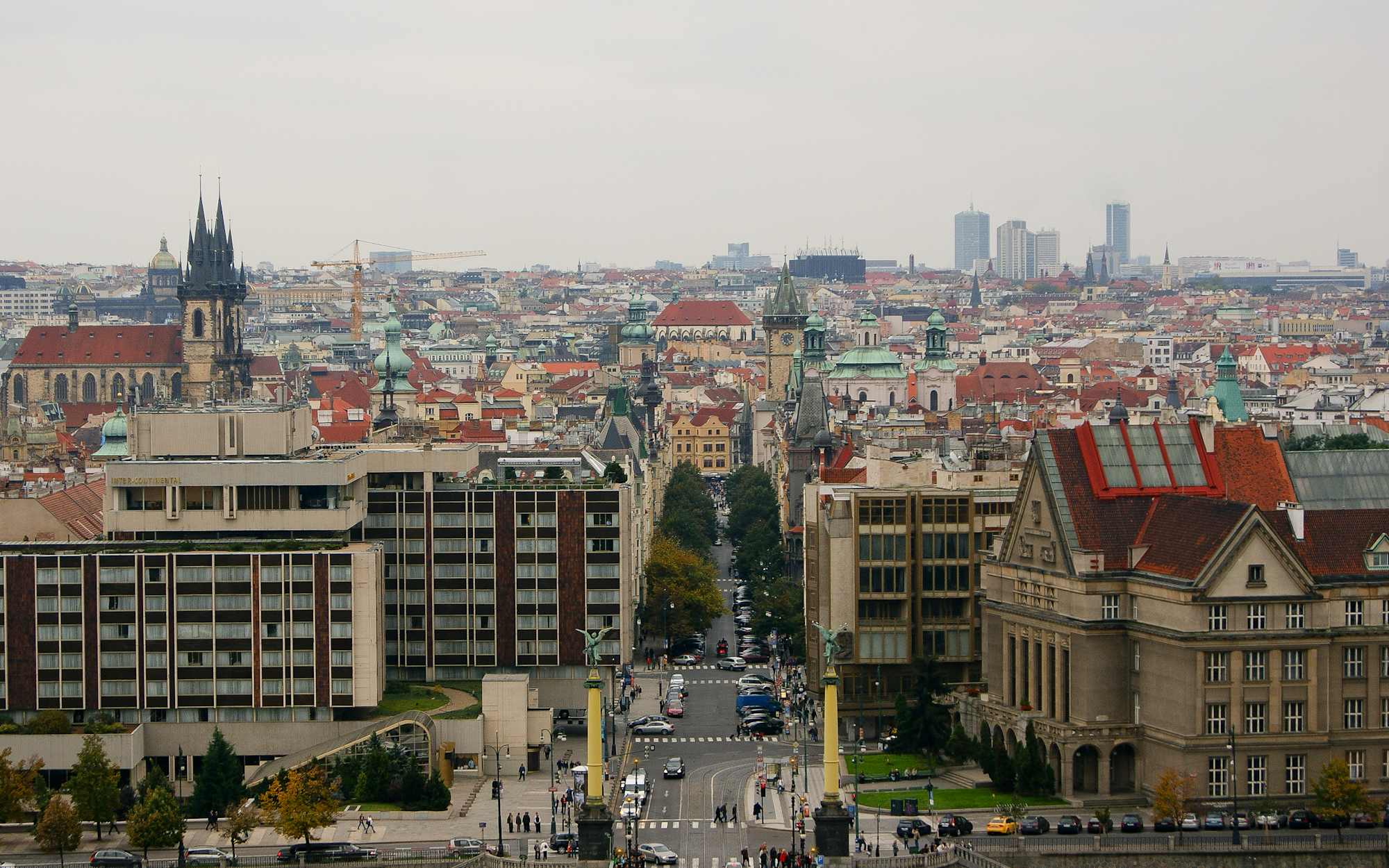 City of Prague, seen from a hill